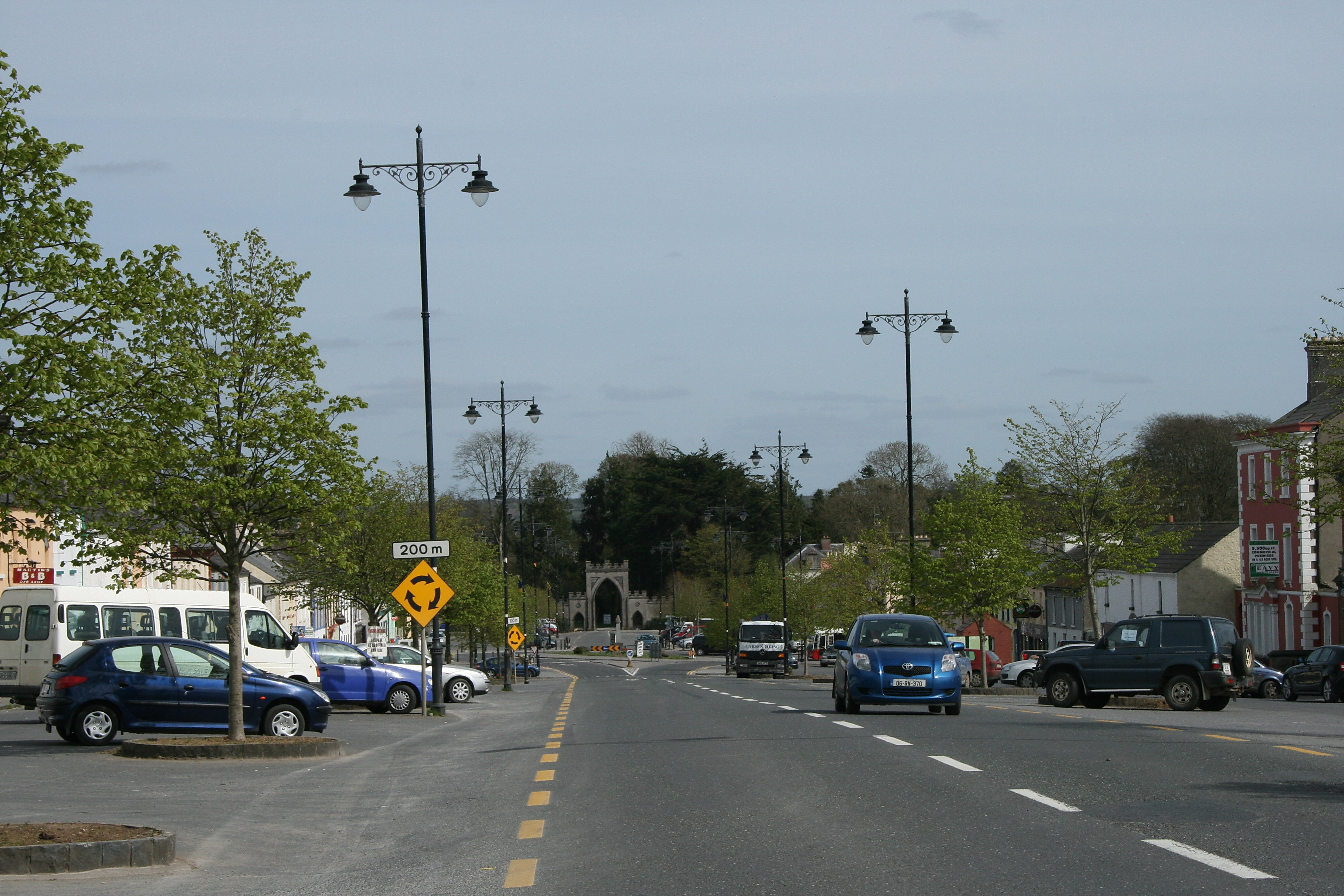 Strokestown, County Roscommon. Note the very wide Main Street and the entrance to Strokestown Park at the end of the street.